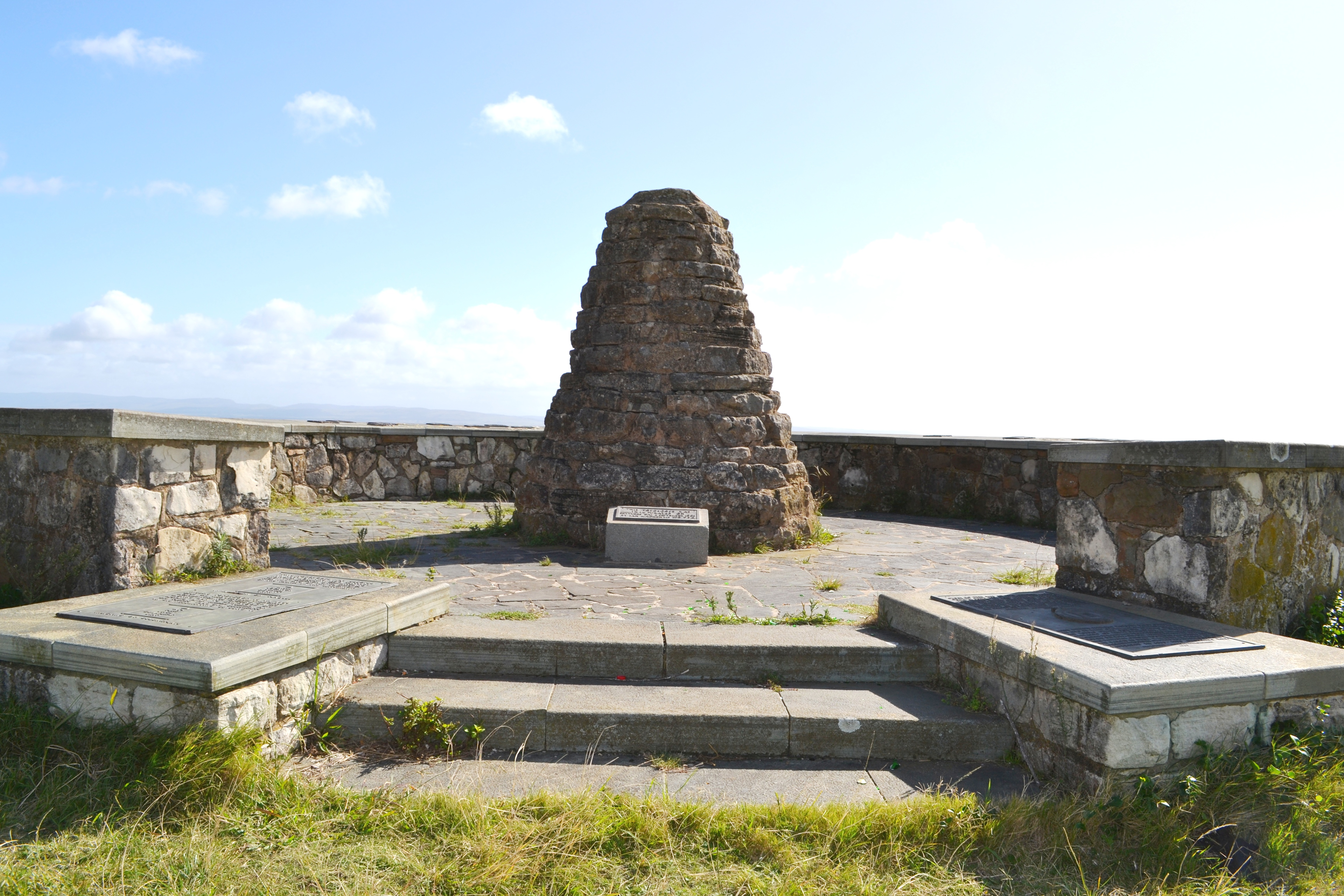 Bathurst, Eastern Cape.